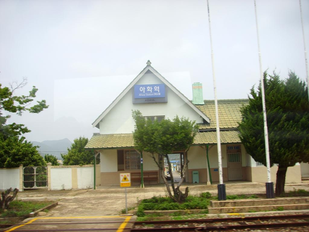 Jungang Line Ahwa Station